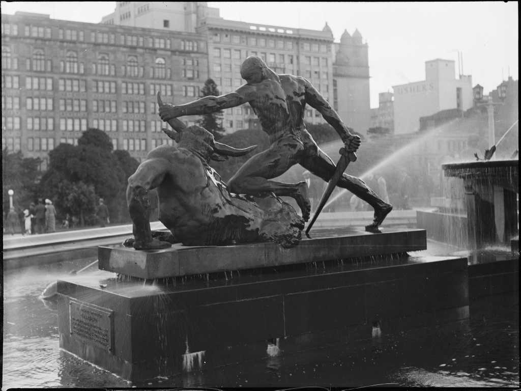 Format: Glass plate negative. Repository: Thomas Lennon Photographic Collection, Powerhouse Museum Part Of: Powerhouse Museum Collection General information about the Powerhouse Museum Collection is available at Persistent URL